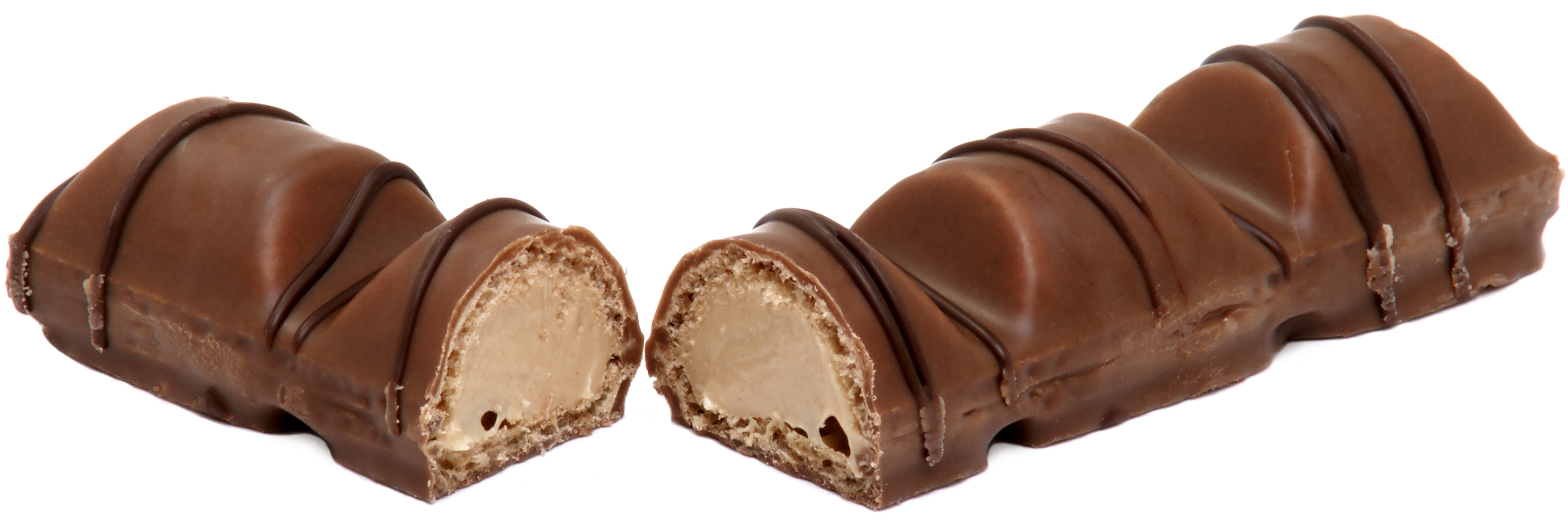 A Kinder Bueno that has been split.